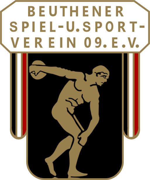 Historical logo of Beuthener SuSV 09.